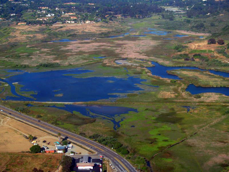 A photo of San Elijo Lagoon (San Diego County, California, USA) taken from a helicopter at approximately 1200 feet. This is looking eastward with Manchester Ave in the photo. Please acknowledge "Phil Konstantin" as the creator of this photograph.